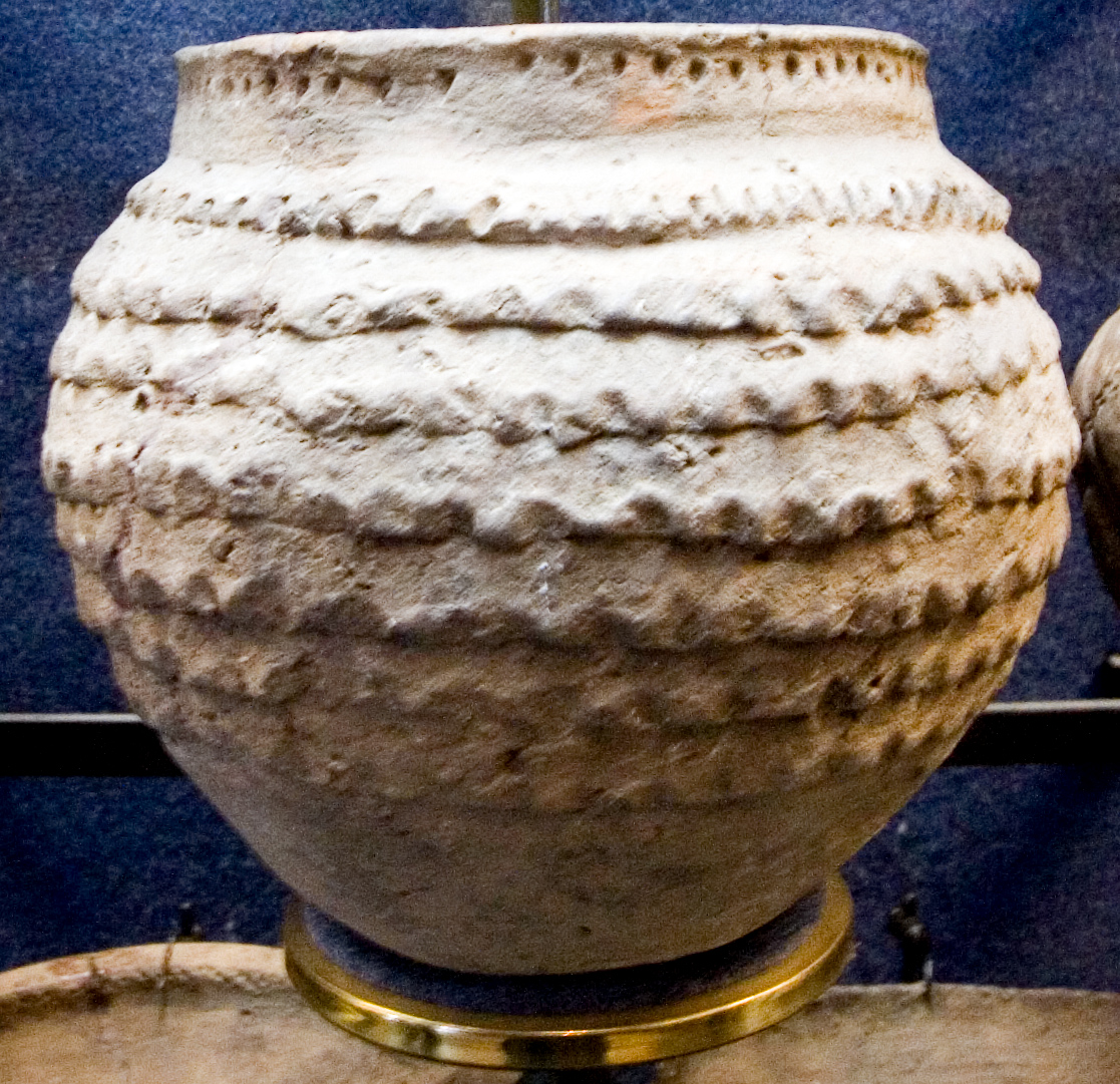 Objects found during excavations